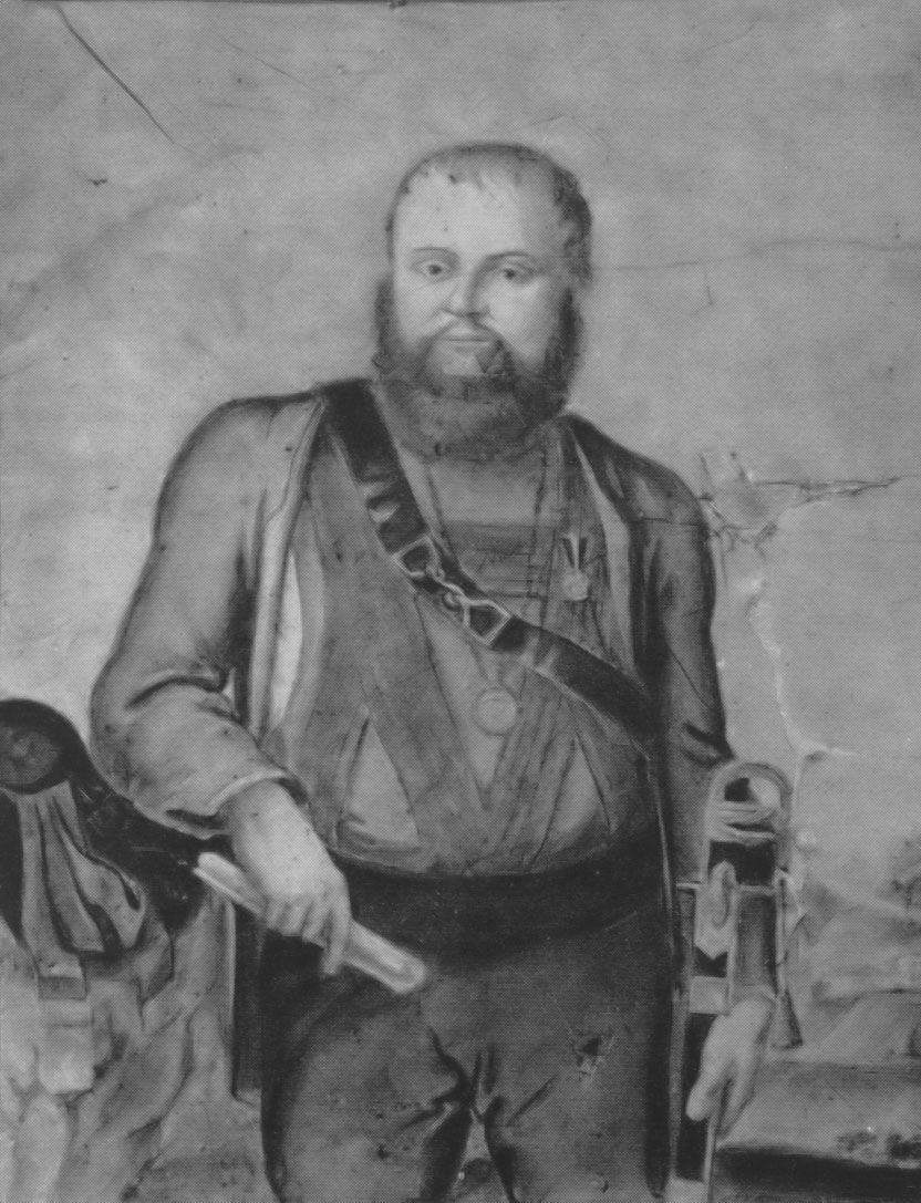 A painting of Andreas Hofer on a cobweb, early 19th century.